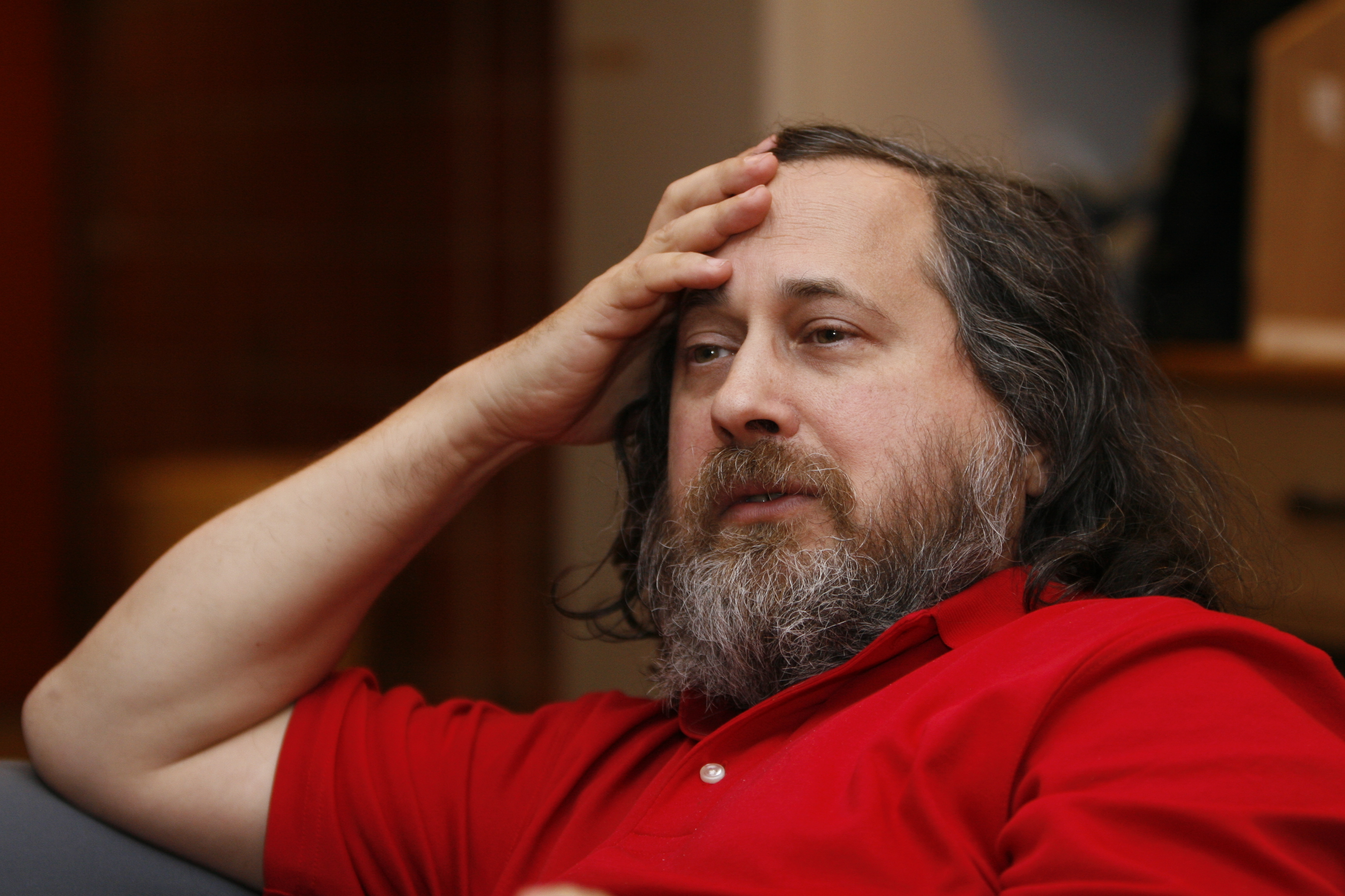 Richard Stallman, founder of the GNU project and free software advocate. Oslo, Norway, 23 February 2009